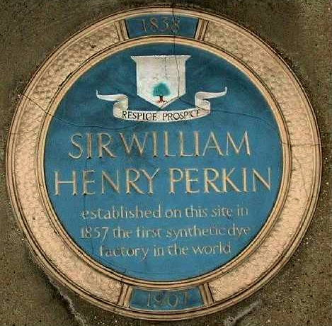 Blue plaque in Greenford, near the Grand Union Canal. Replaced in 2006.